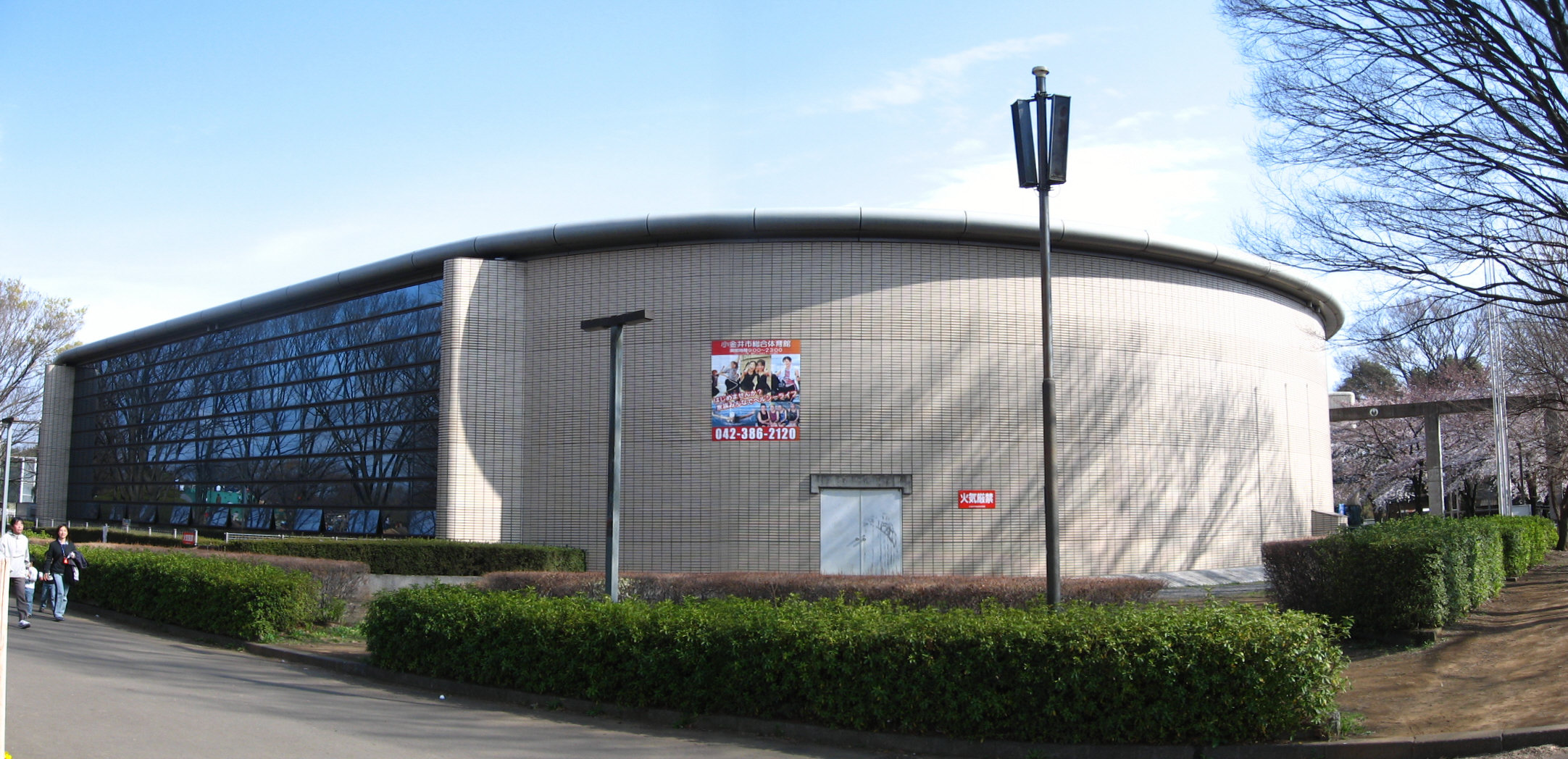 Koganei city general sporting house.